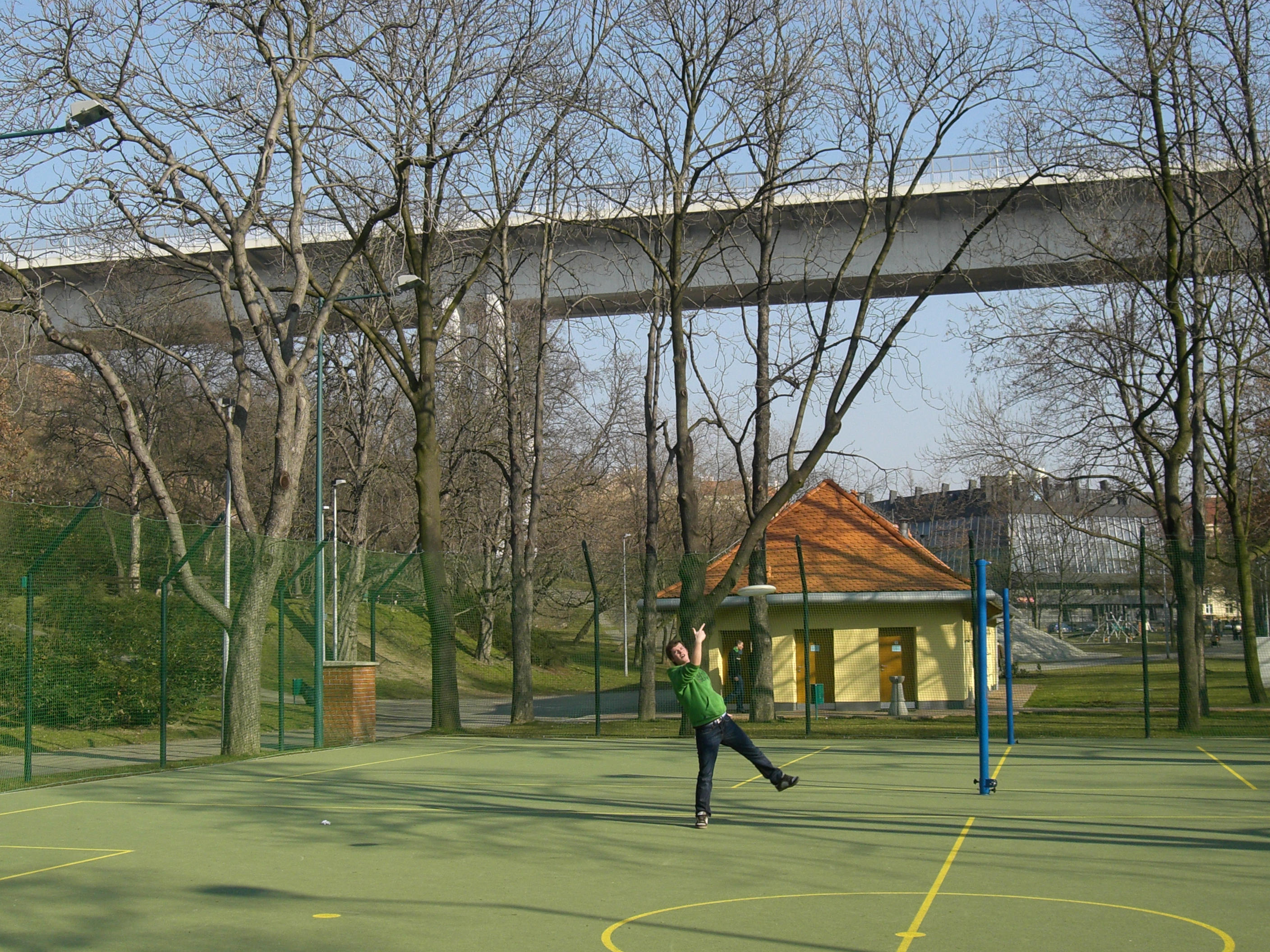 Park Folimanka in Prague, Czech Republic